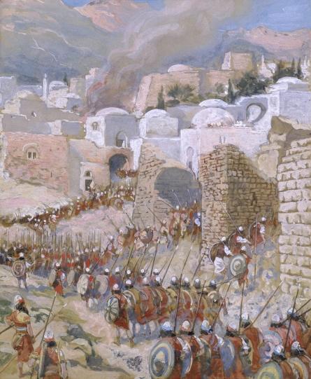 The Taking of Jericho, c. 1896-1902, by James Jacques Joseph Tissot (French, 1836-1902) or follower, gouache on board, 7 1/4 x 5 15/16 in. (18.6 x 15.1 cm), at the Jewish Museum, New York